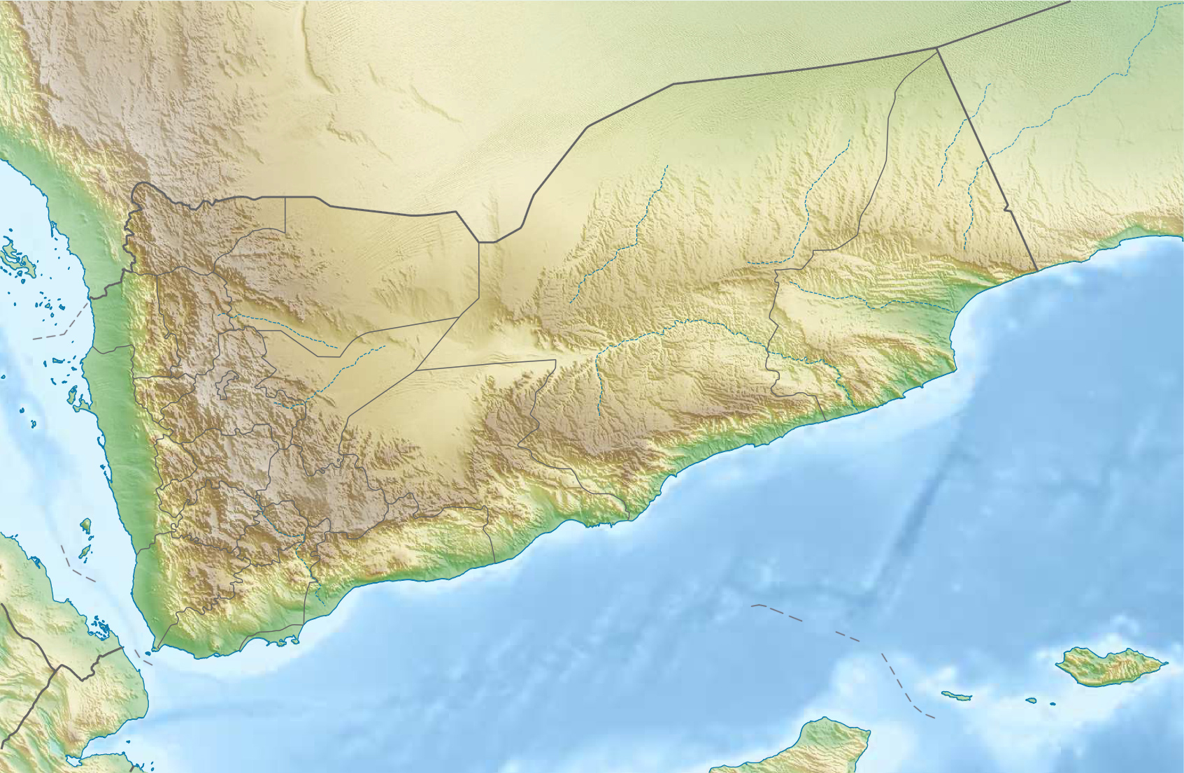 Physical location map of Yemen Equirectangular projection, N/S stretching 104 %. Geographic limits of the map: N: 19.5° N S: 11.4° N W: 41.8° E E: 54.7° E